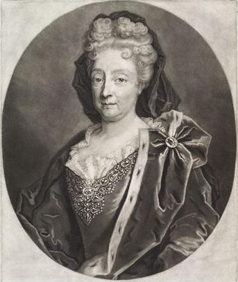 Mezzotint engraving of Sophia, Electress of Hanover